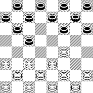 Tabia opening Otkazannaya Igra Kaulena